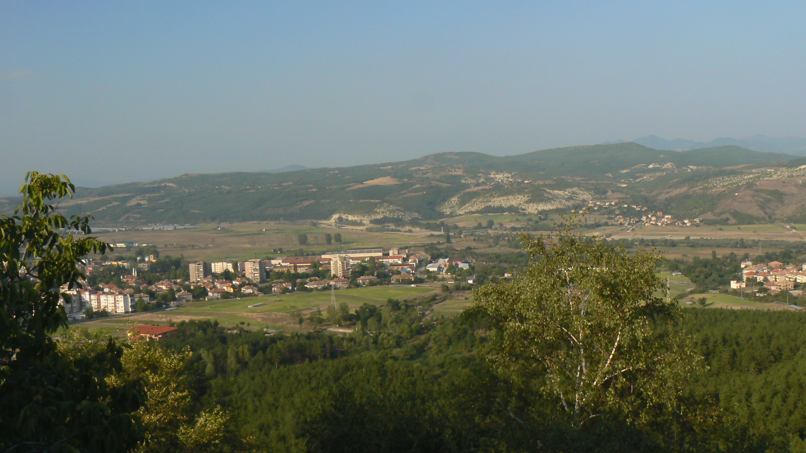 Momchilgrad, Bulgaria, as seen from the heights near the town